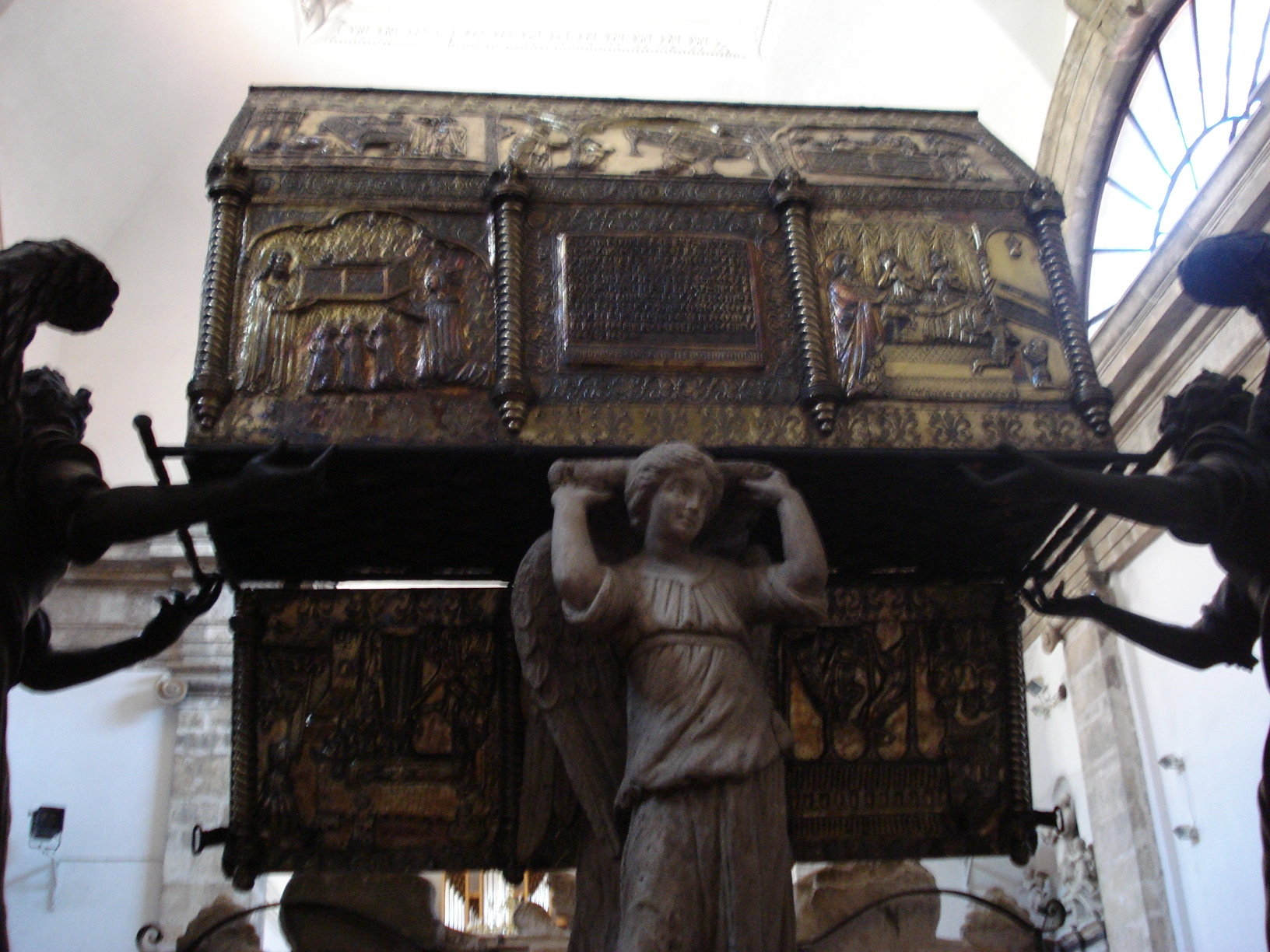 St. Simeon's casket in the Church of St. Simeon the Elder, Zadar, Croatia - original casket from 1380 with St. Simeon's mummified body inside